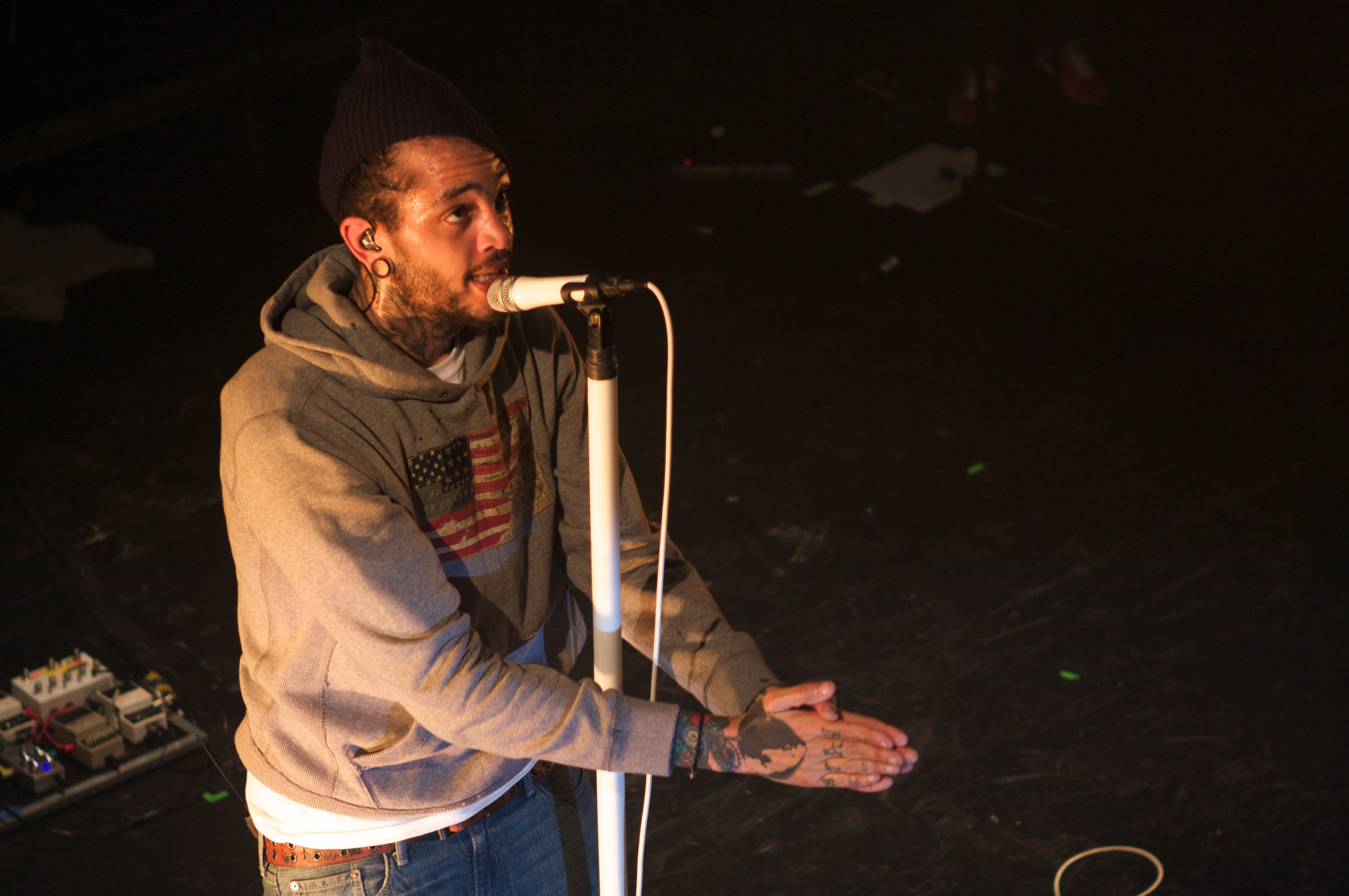 Travie McCoy performing on March 18, 2011 in Montreal, Quebec, Canada